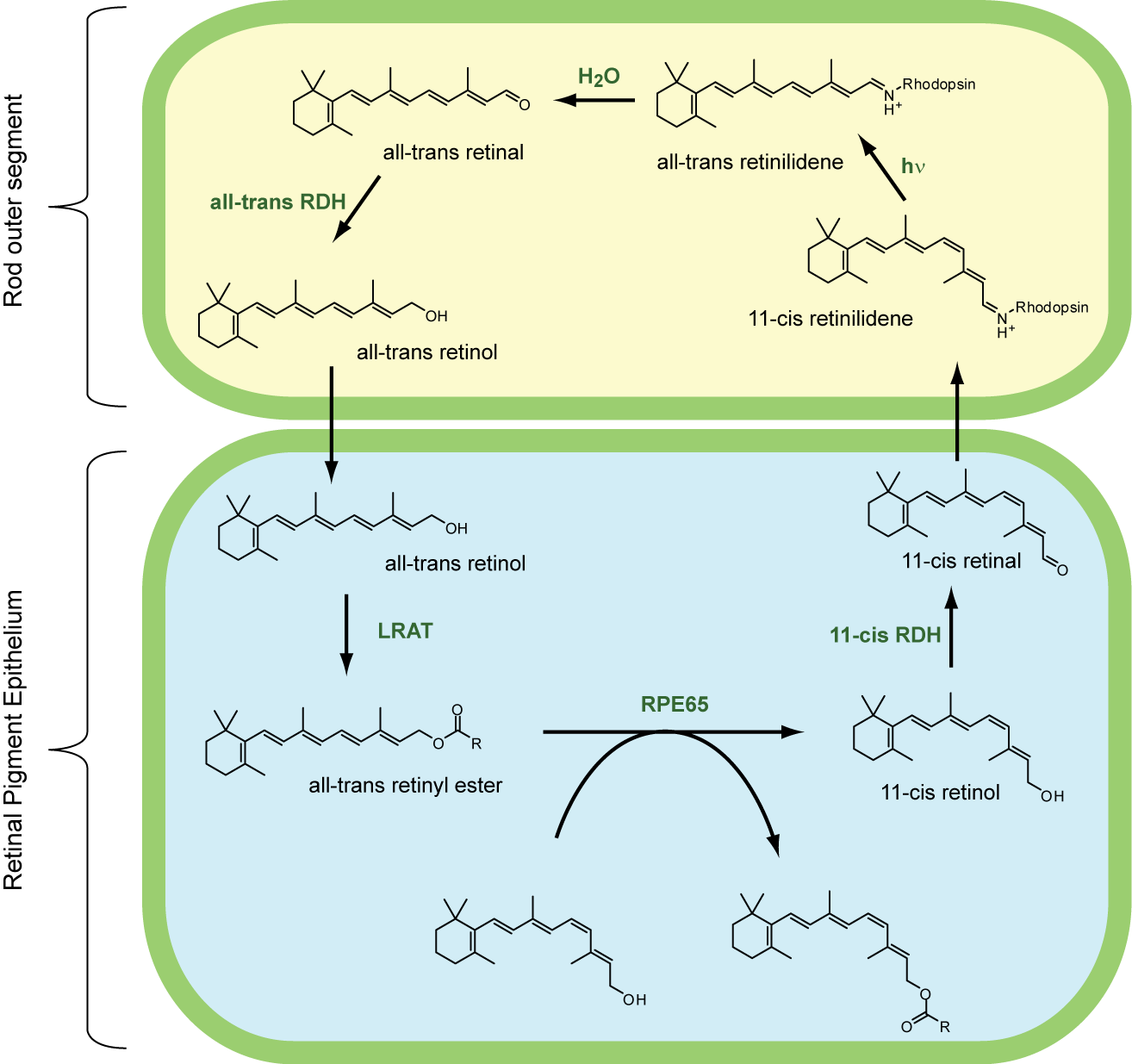 figure created by me in chemdraw and illustrator.